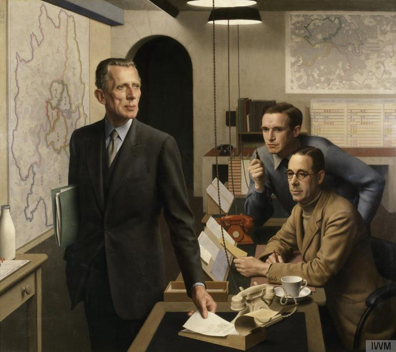 A triple portrait of Ernest Gowers, KCB, KBE, Senior Regional Commissioner for London; Lt Col AJ Child, OBE, MC, Director of Operations and Intelligence; and KAL Parker, Deputy Chief Administrative Officer, in the London Regional Civil Defence Control Room. Gowers stands on the left in front of a map of London. The others are poised behind a desk on the right.